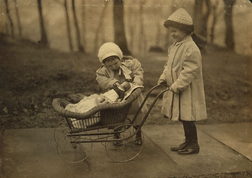 Children playing with Campbell Kid dolls. See photos showing where they are made. Location: New York, New York (State)